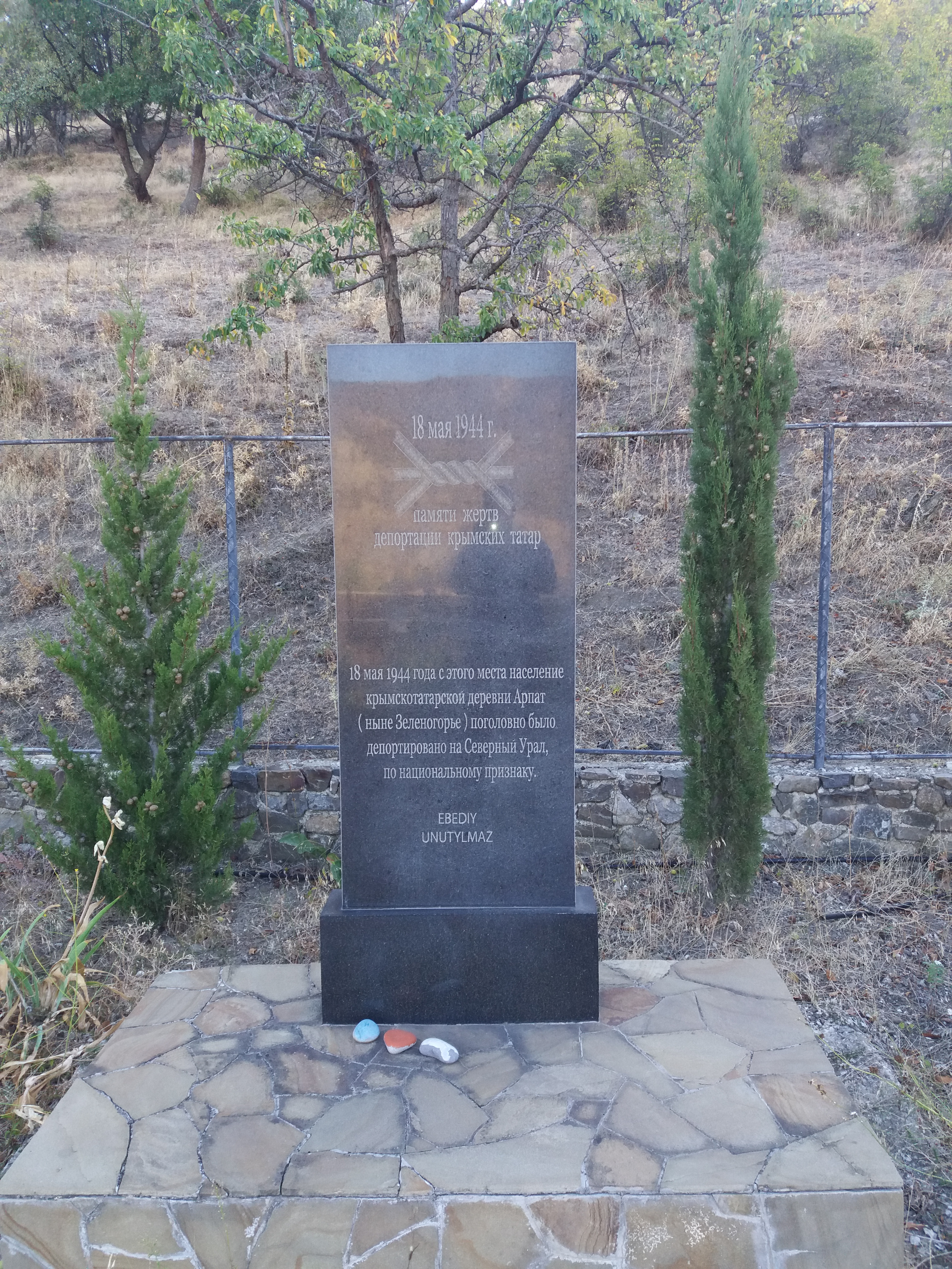 Memorial for those who died in Crimean Tartar deportation